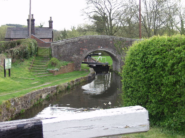 Carreghofa Locks. These locks were an early phase in the refurbishment of the Montgomery Canal. Sadly they are still isolated by dropped bridges either side.